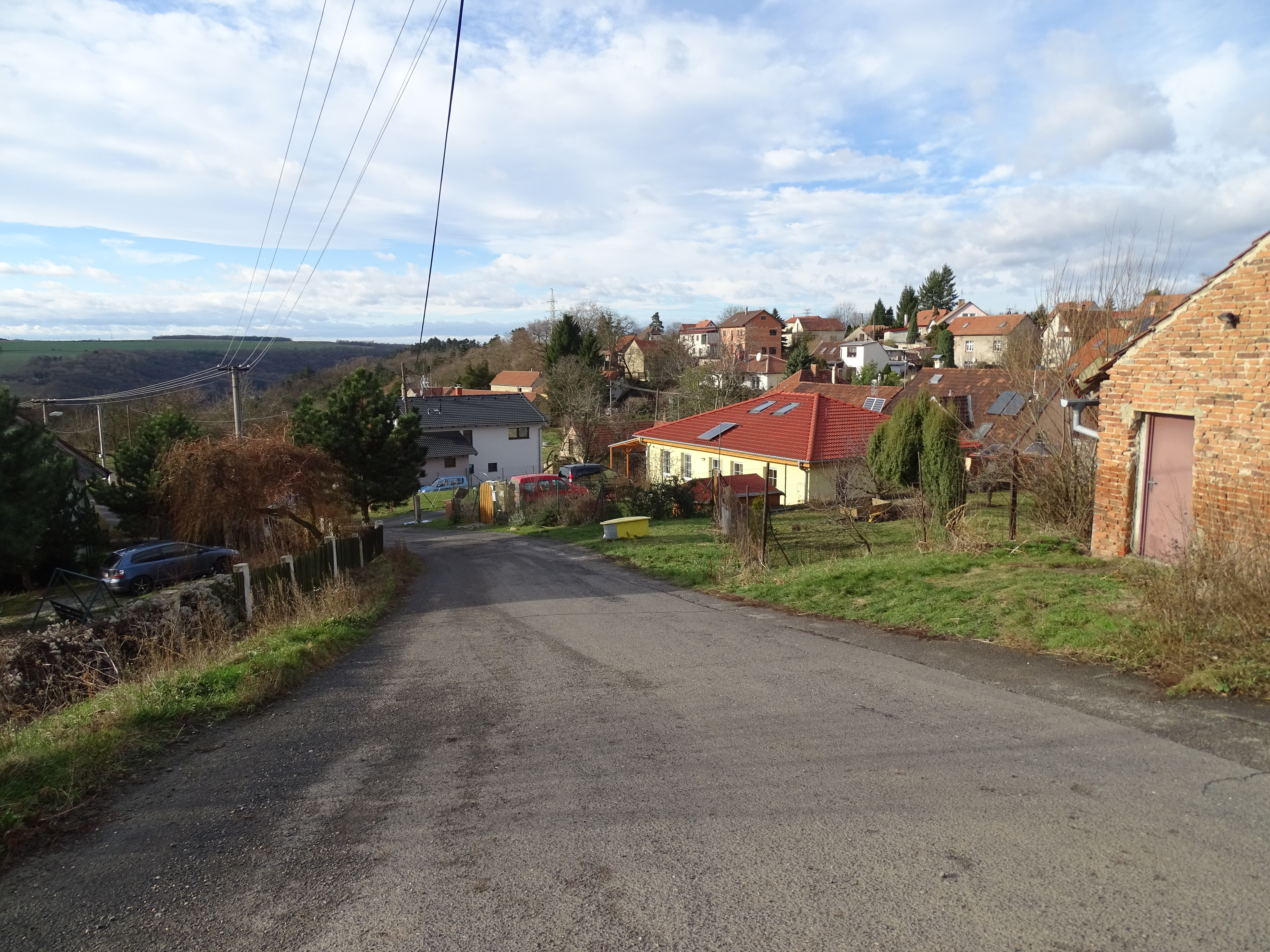 Máslovice, Prague-East District, Central Bohemian Region, Czech Republic. Na Ladech 115.